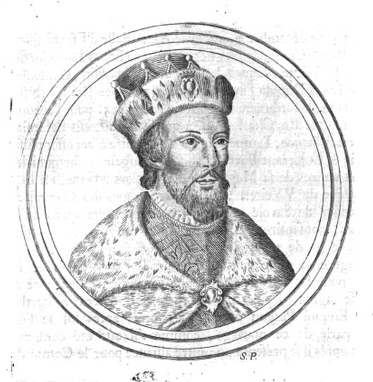 Louis of Savoy, King of Cyprus